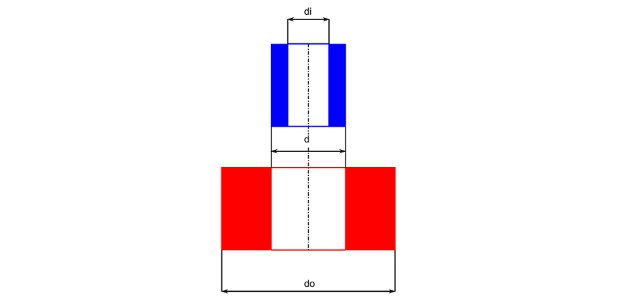 dimensions used to calculate the Press fit force